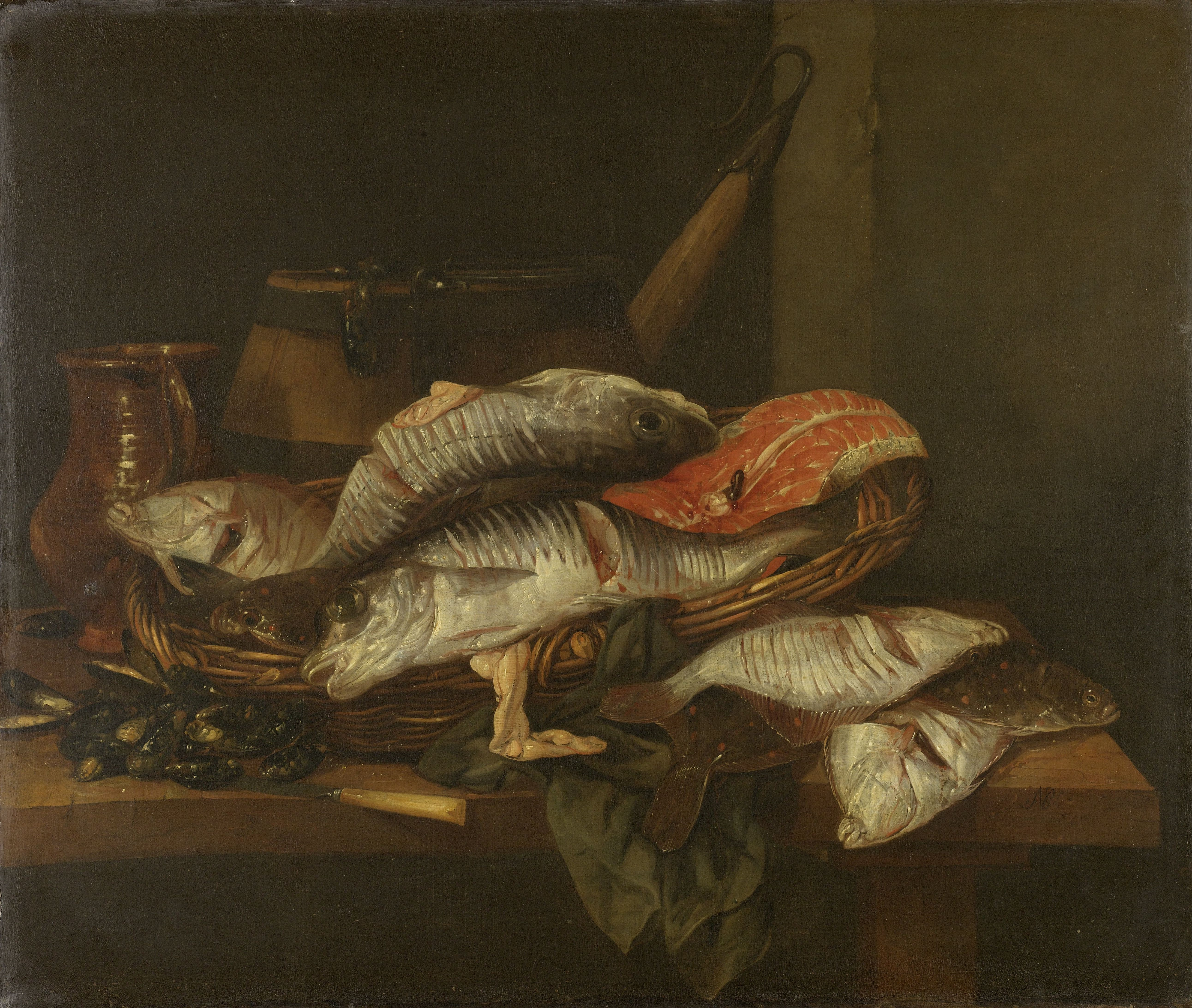 Still life with fish. A basket on a table containing different kinds of fish, including haddock, flatfish and a piece of salmon. Also on the table are some mussels, a knife, a wooden barrel and a brown stoneware jug.